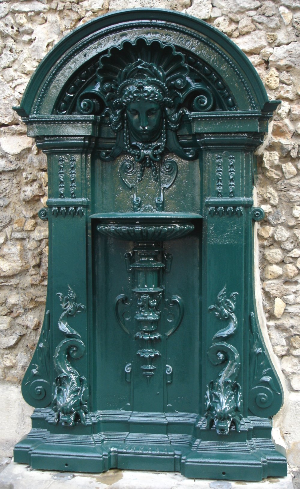 Wallace wall-fountain in Paris, rue Geoffroy Saint-Hilaire.